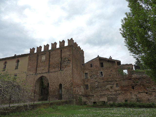 Entrance of the castle of Sarmato